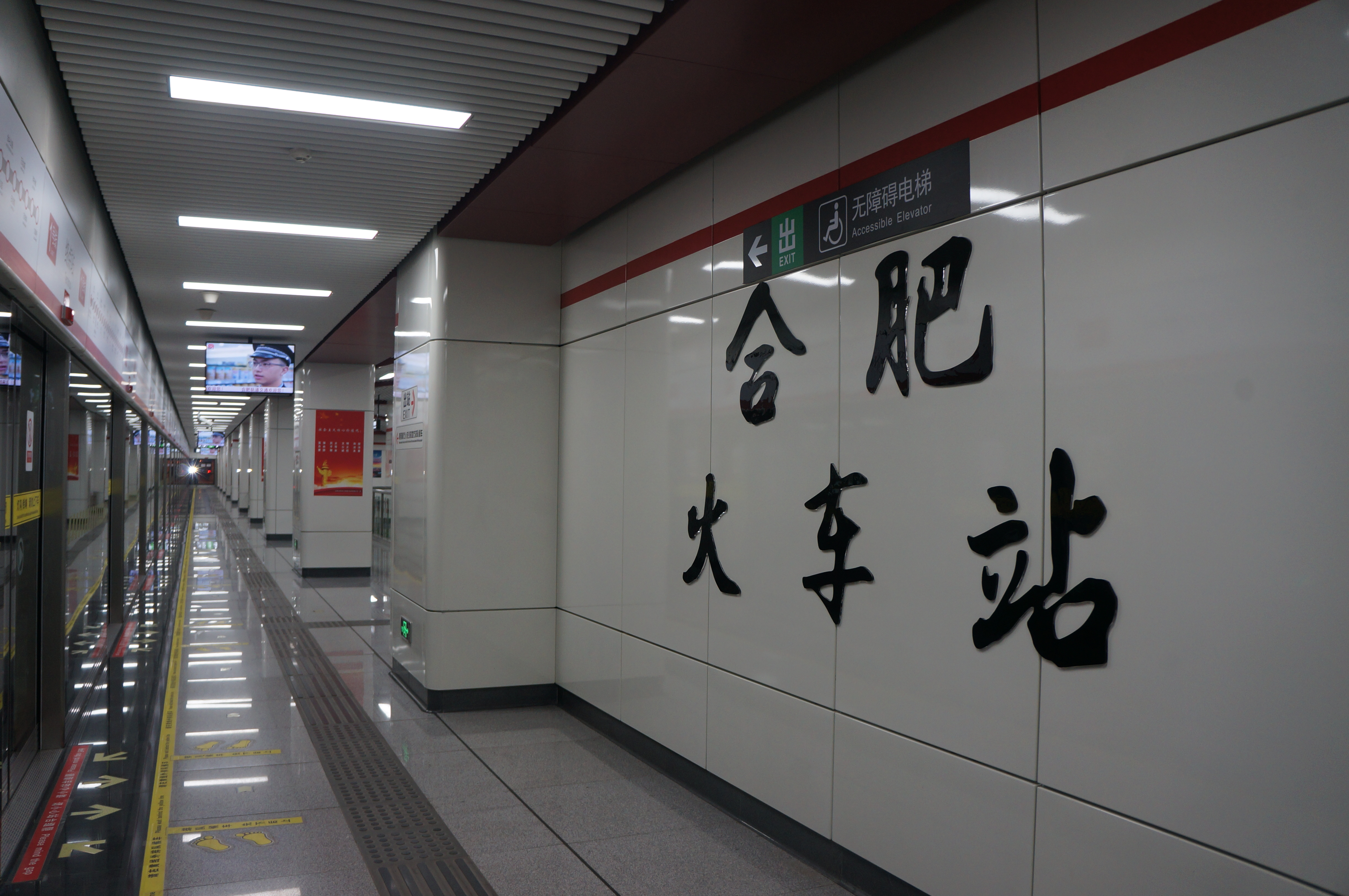 201705 Nameboard of Hefei Railway Station, looks like Metro Guangzhou Railway Station's......